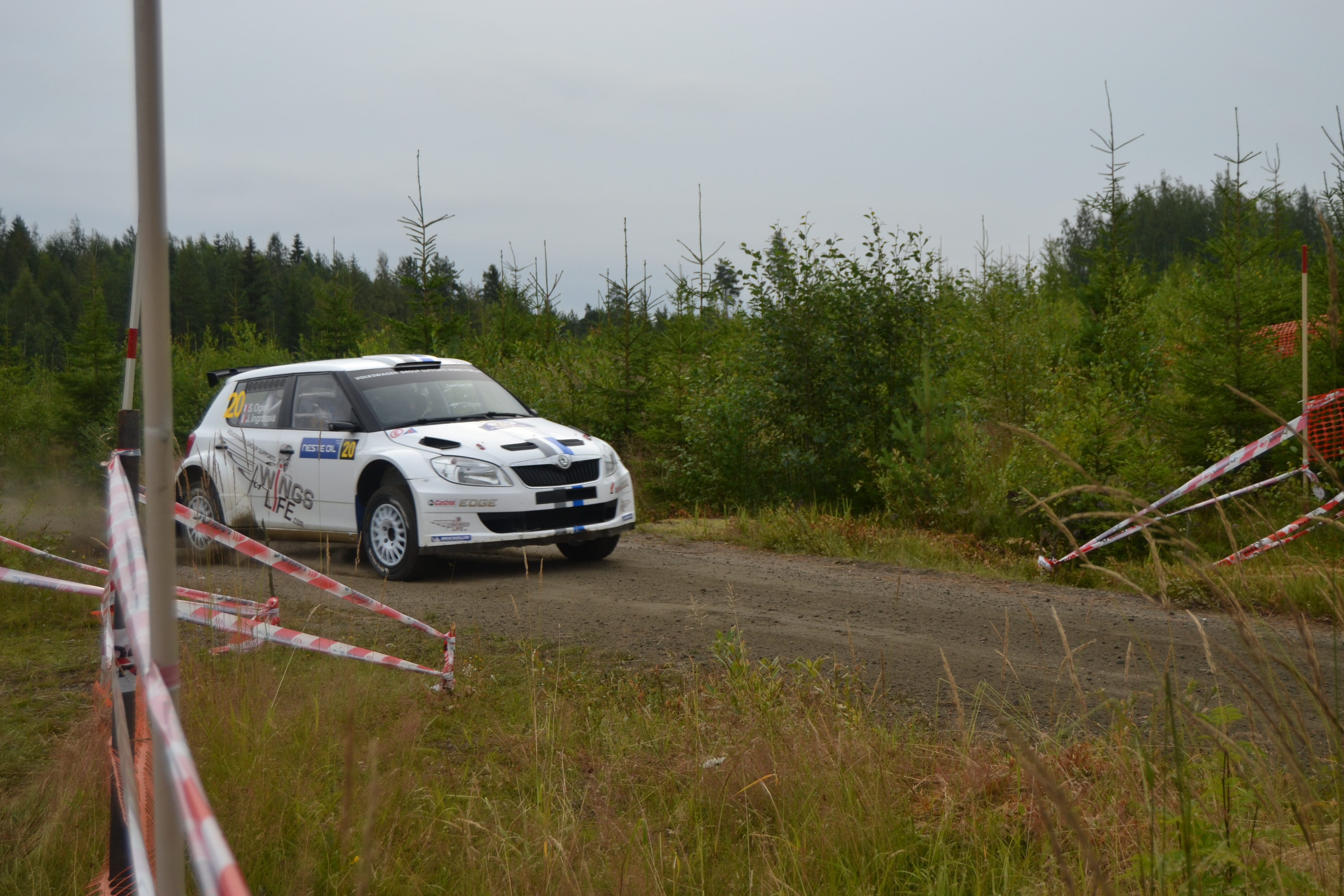 Sébastien Ogier at 1st Surkee stage at 2012 Rally Finland